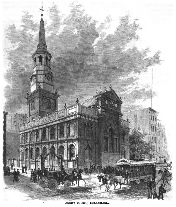 Drawing of Christ Church, Philadelphia, circa 1876